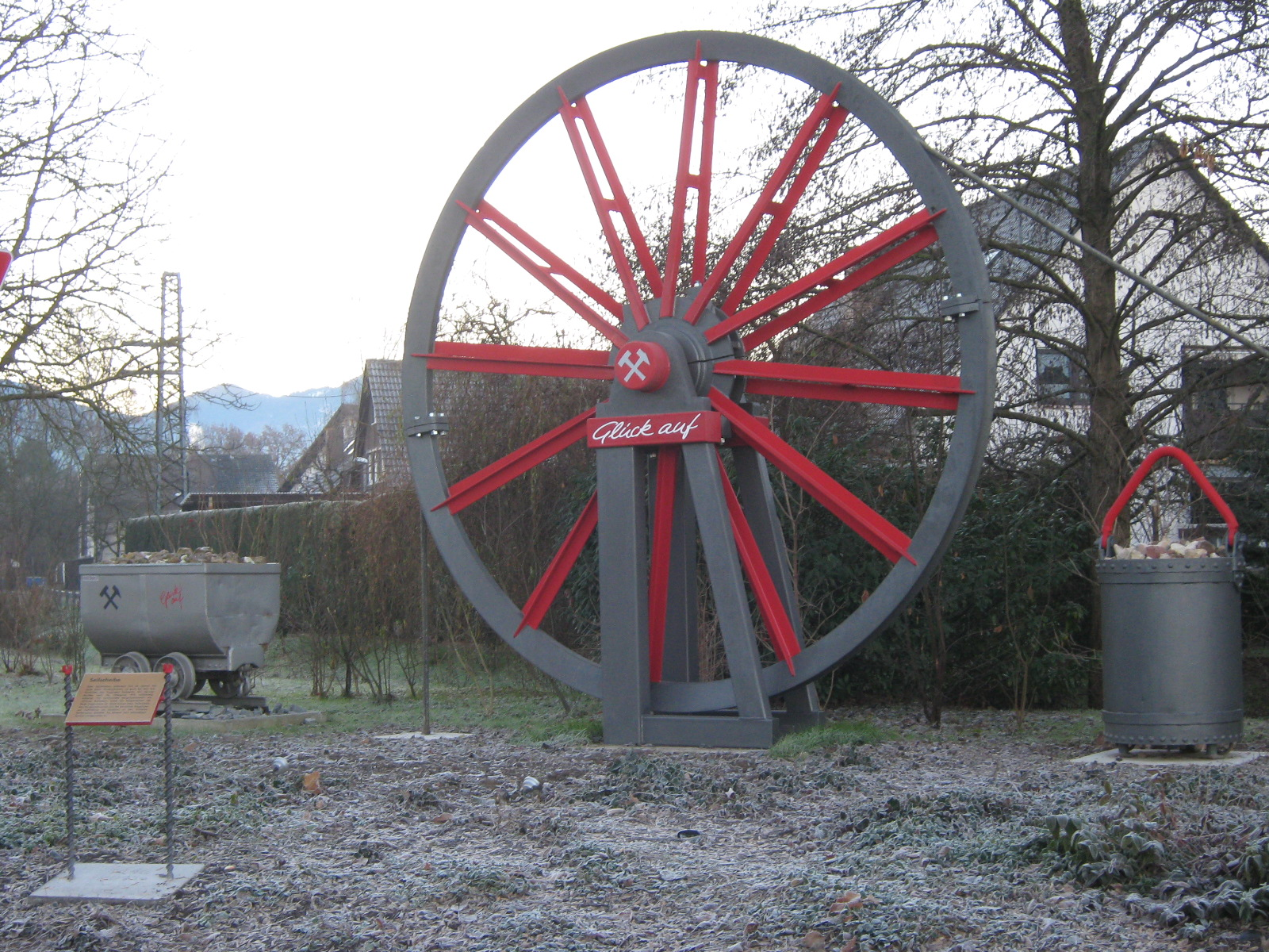 Germany, Baden-Württemberg, Markgräflerland: Restaurated conveying exhibited at entry west of town